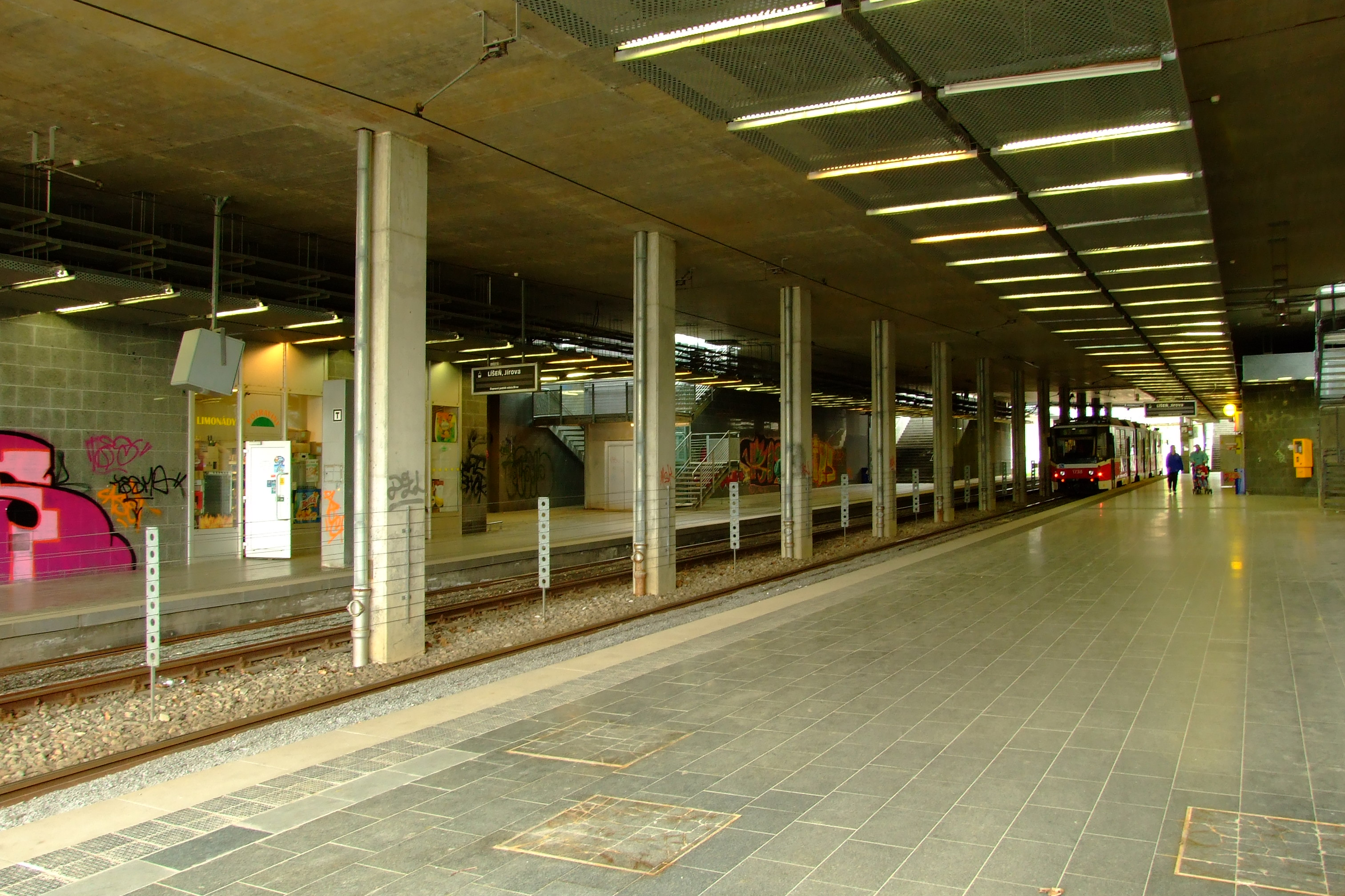 Underground tram station in Brno-Líšeň